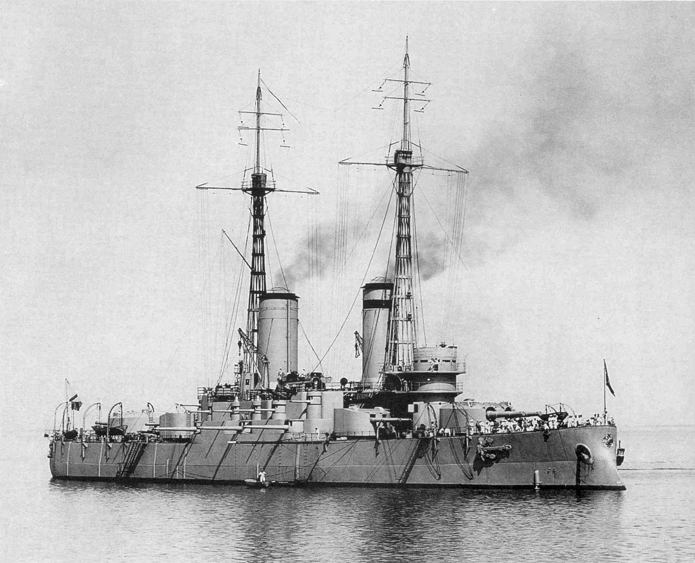 Imperial Russian battleship Andrei Pervozvannyy in Reval, 1912.